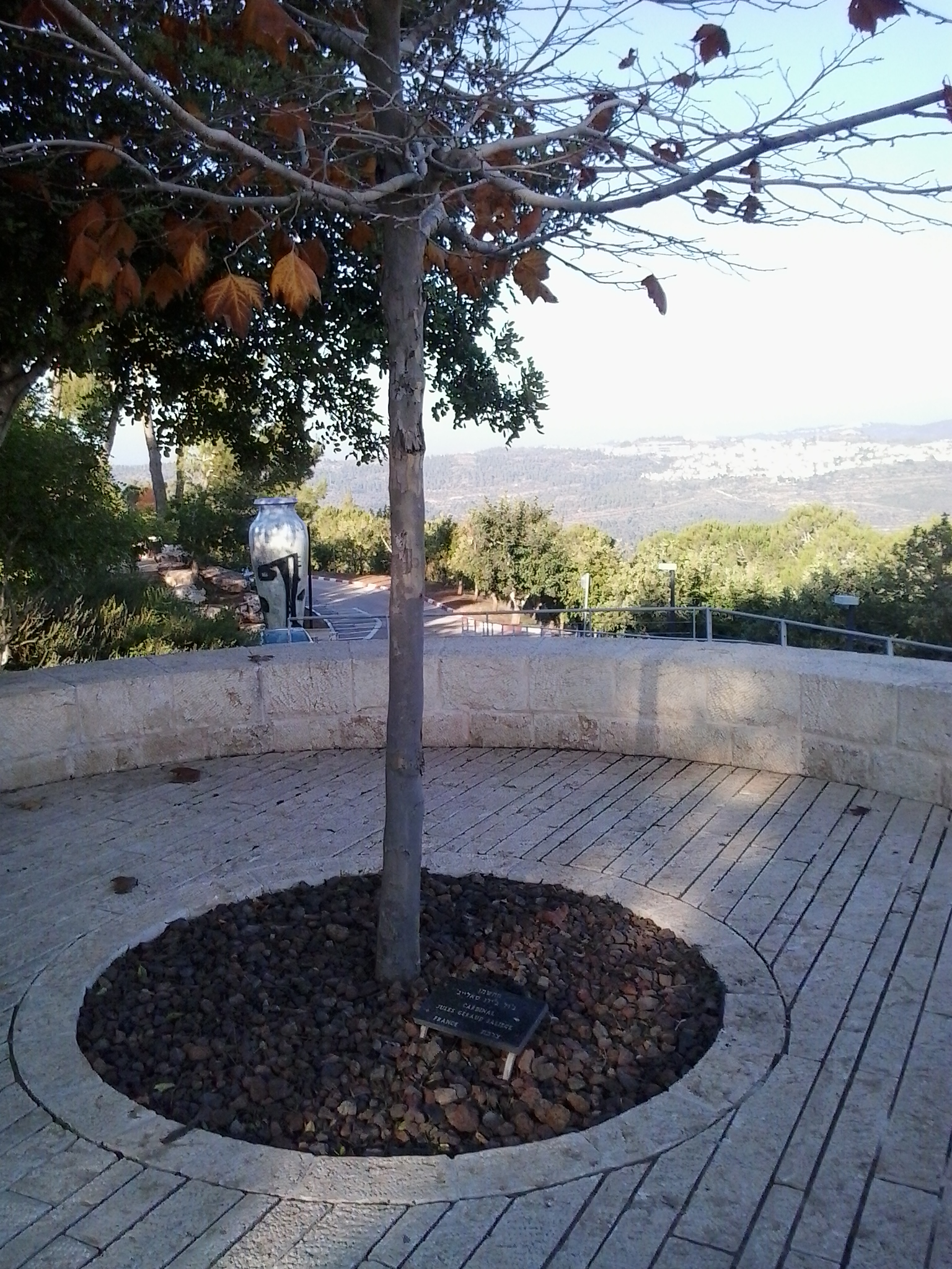 the tree planted at Yad Vashem honoring Saliege